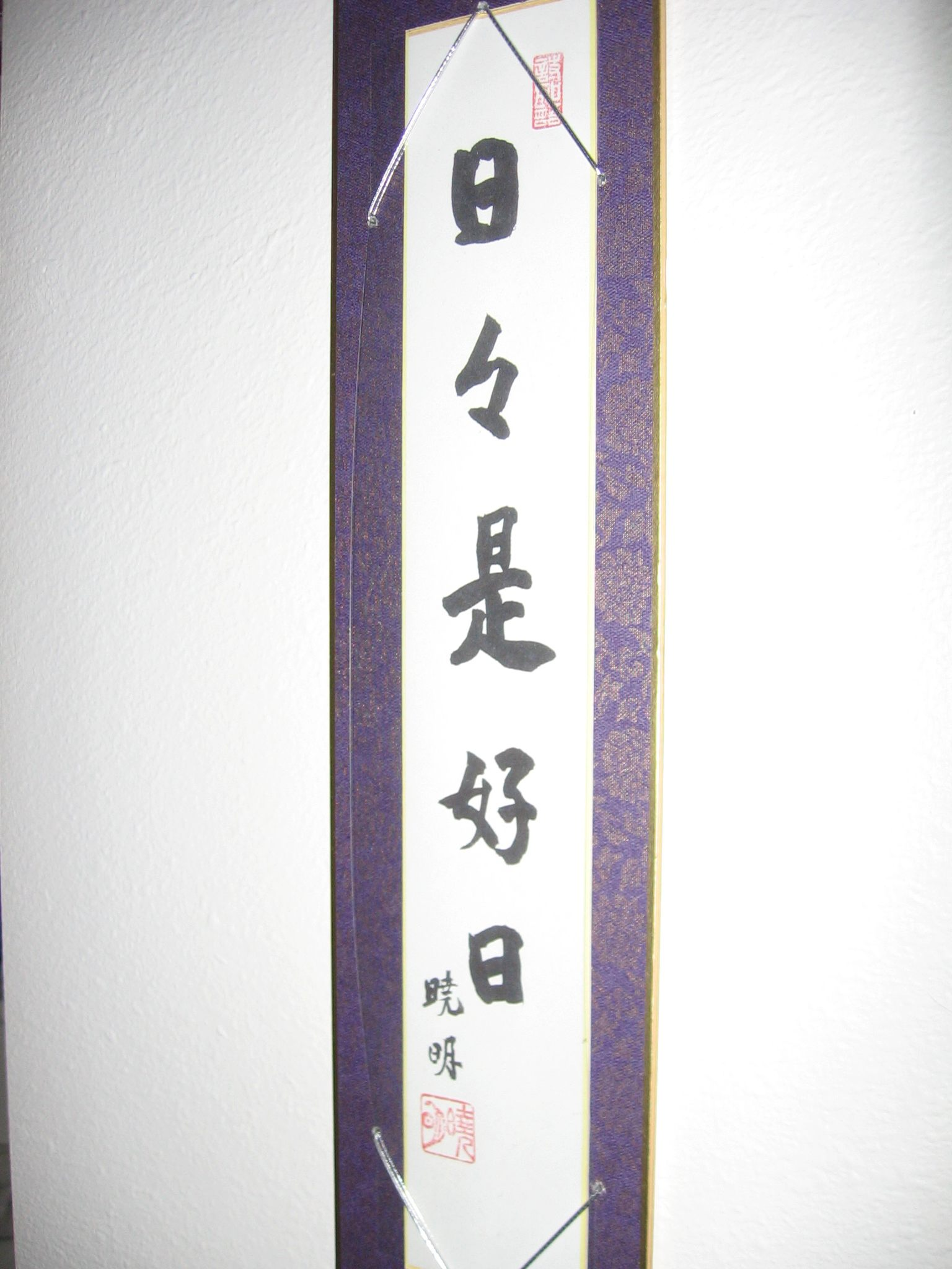 My photo of my personal Japanese scroll (This scroll is a copy of calligraphy by the late Venerable Rev. Gyomai Kubose of Bright Dawn Center of Oneness Buddhism (Every day is a good day); taken by Kenneth Freeman.